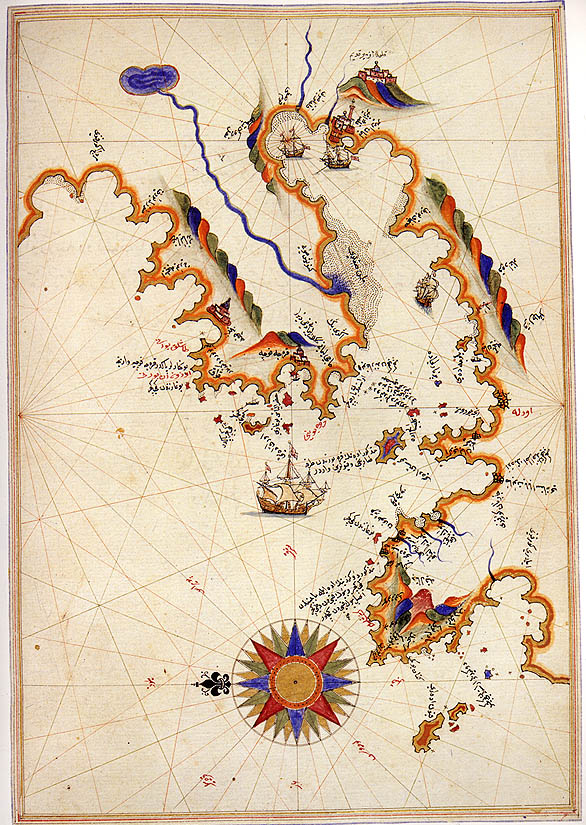 Izmir in Turkey on the Kitab-Ä± Bahriye (Book of Navigation) of Piri Reis